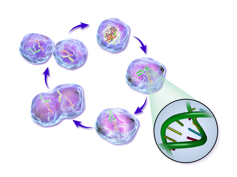 Illustration depicting the life cycle of a normal cell.